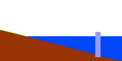 Reclamation works - 02